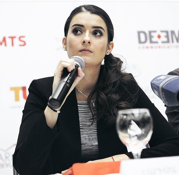 Hovannisian in October 2015 Depicted person: Larisa Hovannisian – Armenian American social entrepreneur and education activist